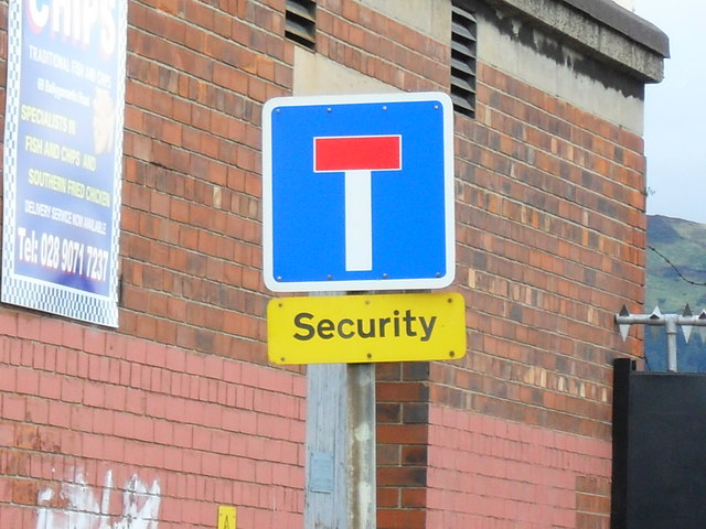 Security concerns at Flax Street. Flax Street runs between a predominantly Protestant part of the Crumlin Road and the overwhelmingly Roman Catholic enclave of the Ardoyne - which in Northern Ireland terms can be a recipe for trouble. Therefore Flax Street now has a ten-foot-high spiked gate, and this sign dictate that it's a no-through road for 'security' reasons.